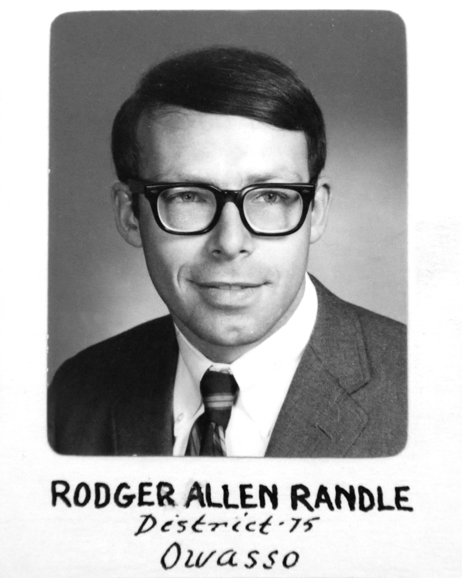 Rodger Randle, 1971